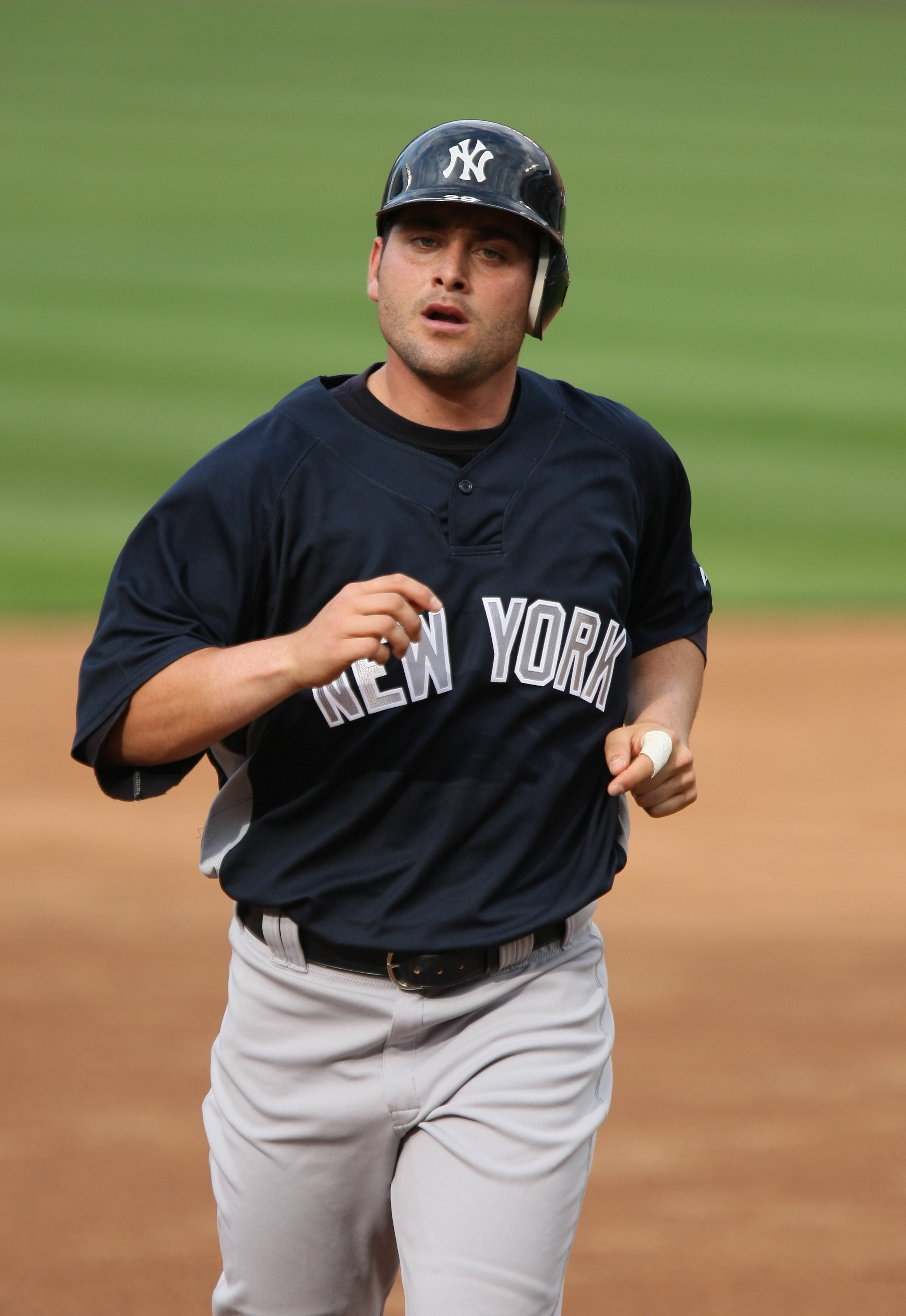 Image used at